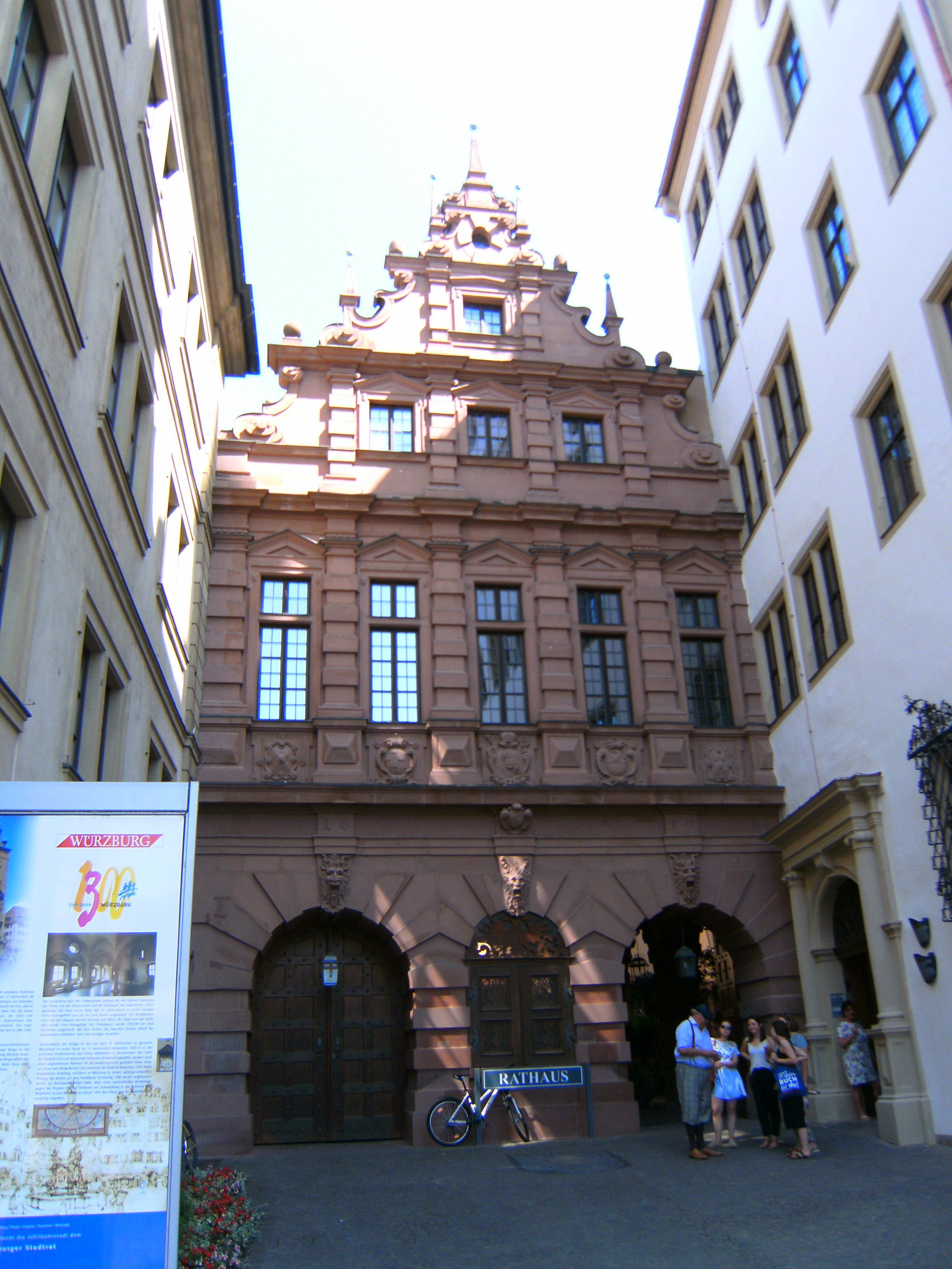 Würzburg, Germany, townhall (Rathaus): southern entrance.